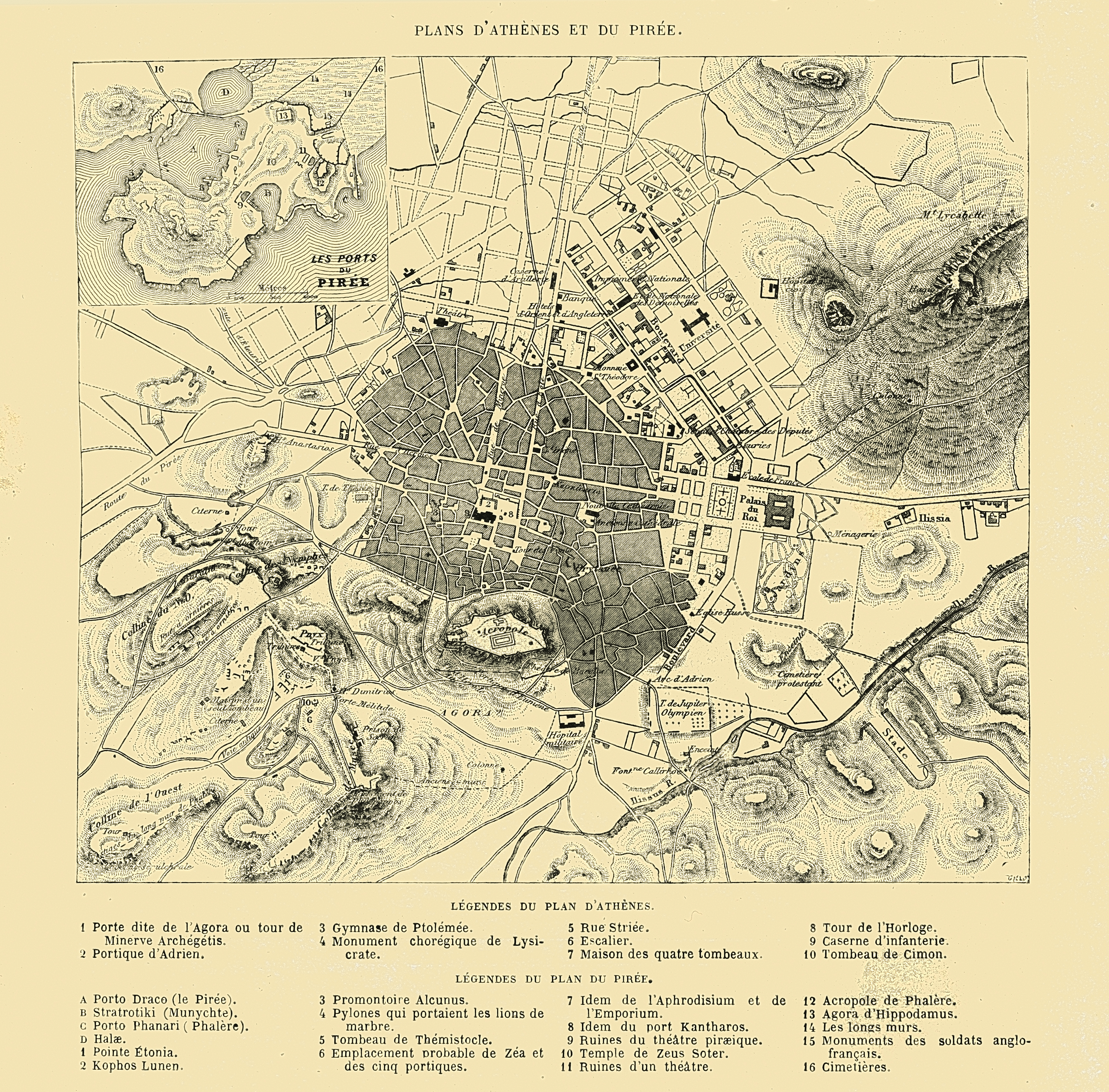 scanned from 'Un Hiver à Athènes', Antonin Proust (1832–1905), Le Tour du Monde, page 51, 1862 Scan in B&W available from Gallica.